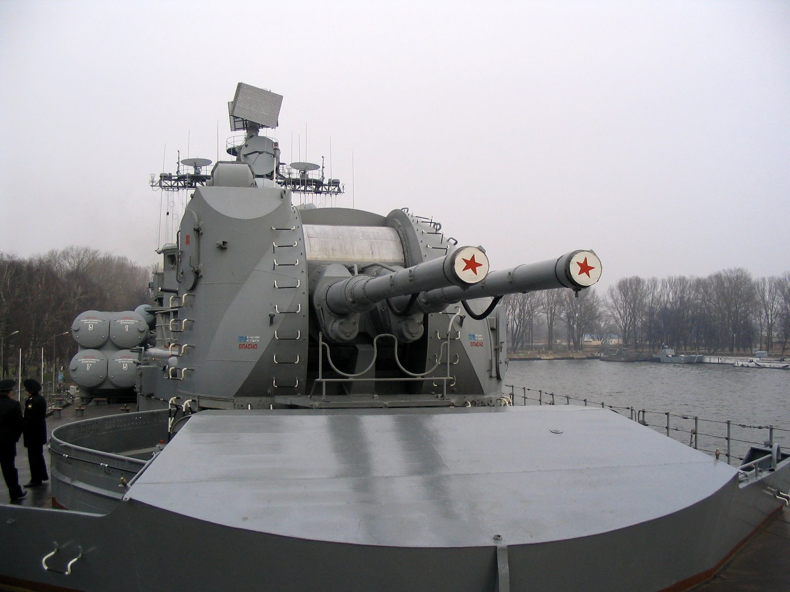 A Russian 130 mm automatick naval gun AK-130 (A-218) on destroyer «Nastoychivyi» in Baltiysk.